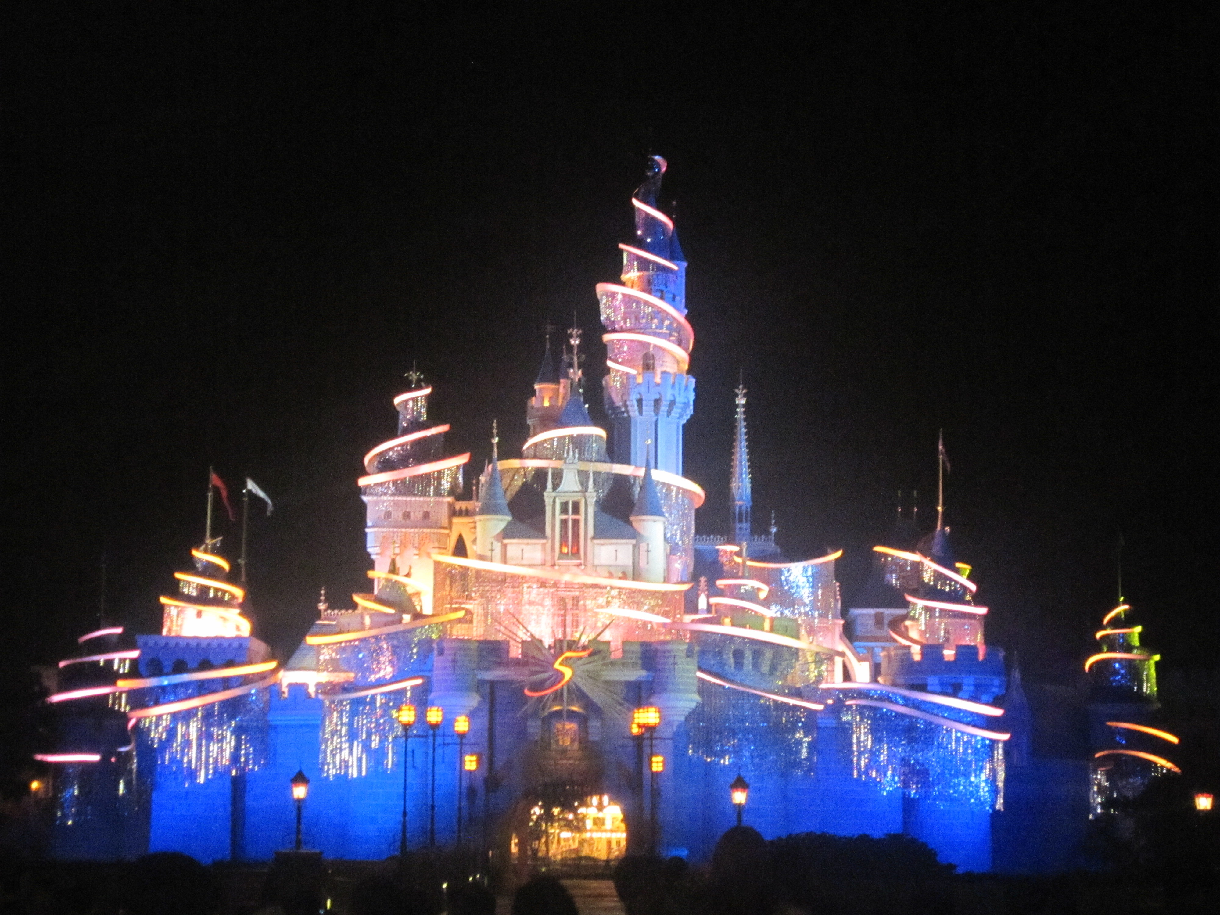 Hong Kong Disneyland 5 Anniversary lighting performance